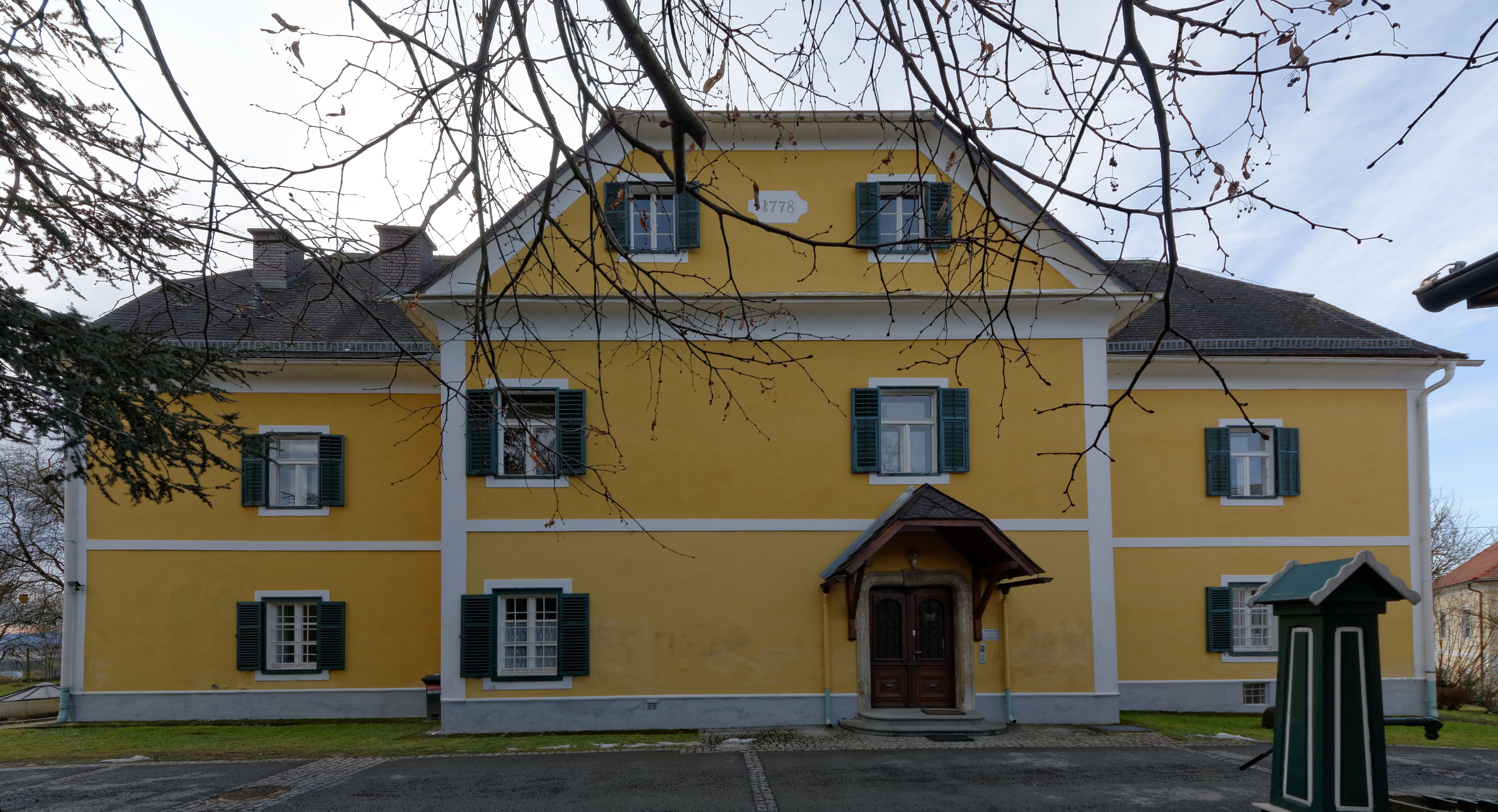 Rectory in Sankt Georgen an der Stiefing, Styria, Austria